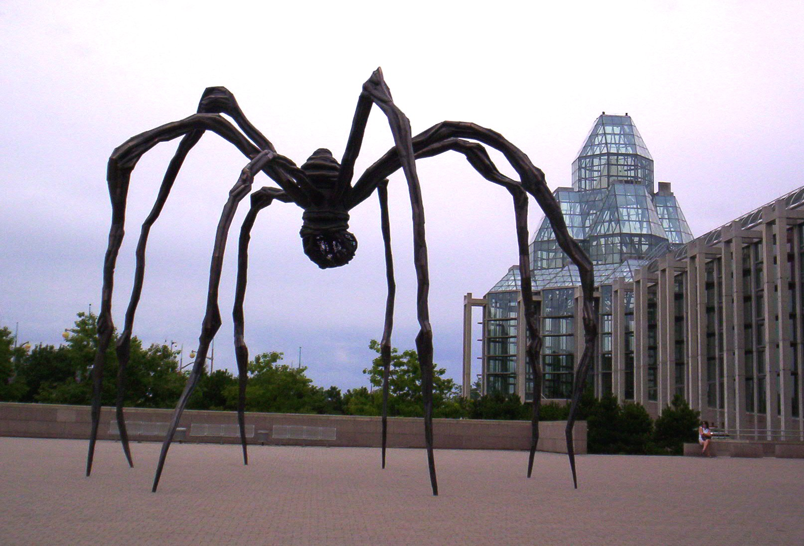 Louise Bourgeois' Maman, located outside the National Gallery of Canada. Personal photo by user:Radagast.